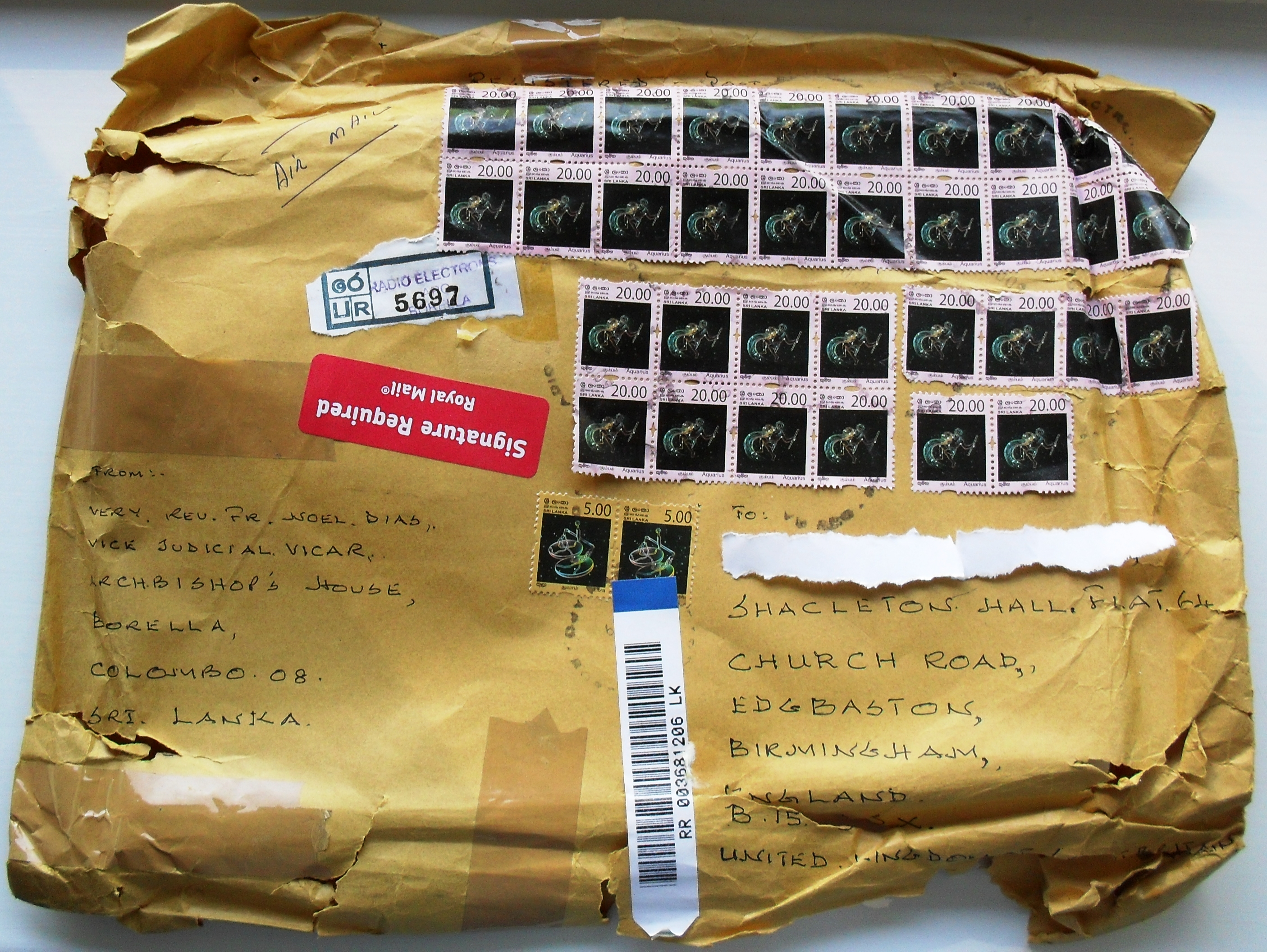 Registered mail from Sri Lanka to the UK. Two definitive stamps of Sri Lanka issued in 2007: Constellations - Pisces. Series: Zodiac Signs. Catalog codes: Michel LK 1658A, Yvert et Tellier LK 1612, WADP Numbering System - WNS LK 046.07. Themes: Constellations - Zodiac. Issued on: 2007-10-09. Perforation: comb 13¼ x 13. Printing: Offset lithography. Size: 20 x 24.5 mm. Colors: Multicolor. Face value: 20 ரூ - Sri Lankan rupee. Constellations - Libra. Series: Zodiac Signs. Catalog codes: Michel LK 1654A, Yvert et Tellier LK 1607, WADP Numbering System - WNS LK 042.07. Themes: Constellations - Zodiac. Issued on: 2007-10-09. Perforation: comb 13¼ x 13. Printing: Offset lithography. Size: 20 x 24.5 mm. Colors: Multicolor. Face value: 5 ரூ - Sri Lankan rupee.